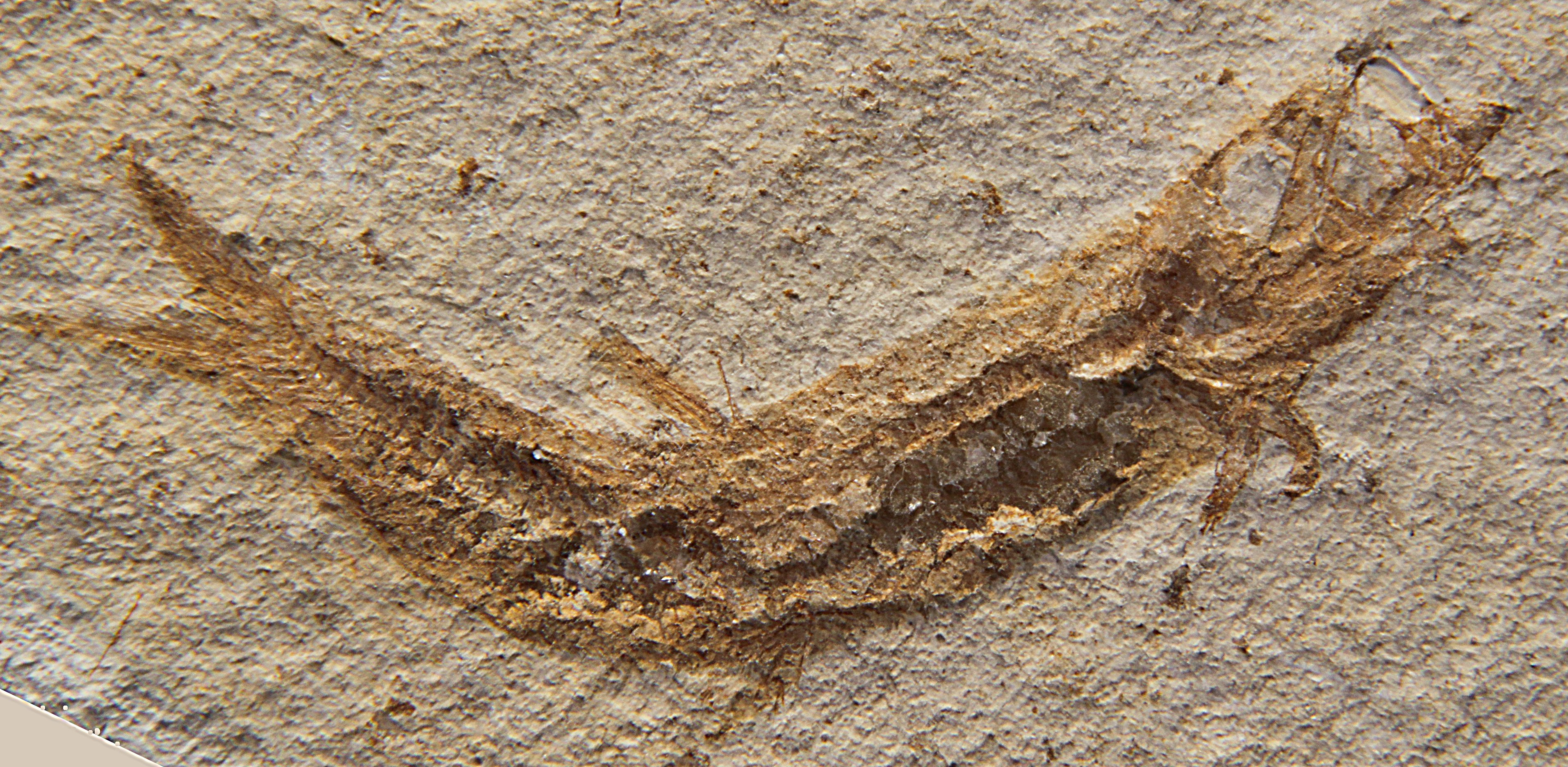 A fossil fish Leptolepides sprattiformes, Order Leptolepiformes, Family Leptolepidae, 63mm nose to tail, collected from the Solnhofen Shale near Eichstadt, Bavaria, Germany, from the late Upper Jurassic (early Titonian)